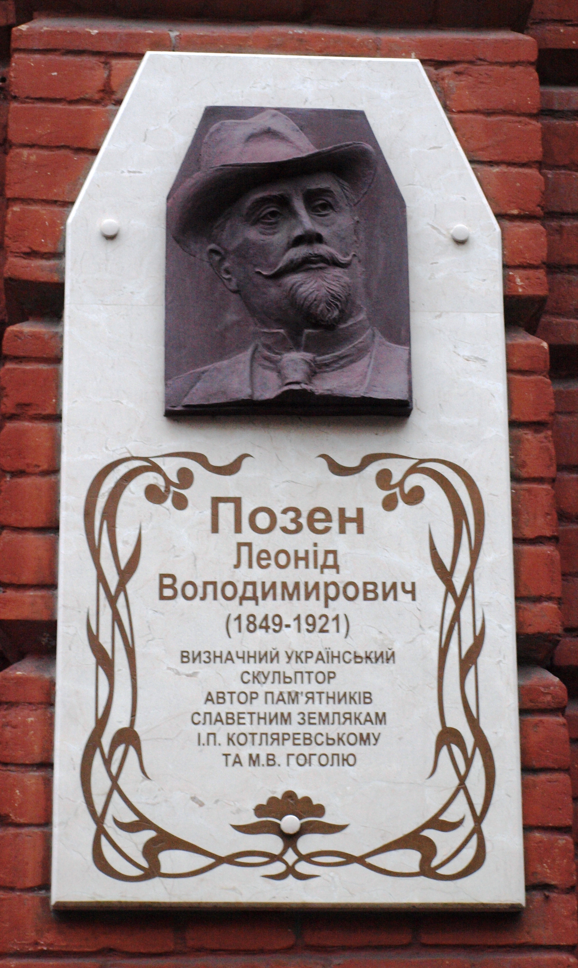 Leonid Pozen (commemorative plaque in Poltava)